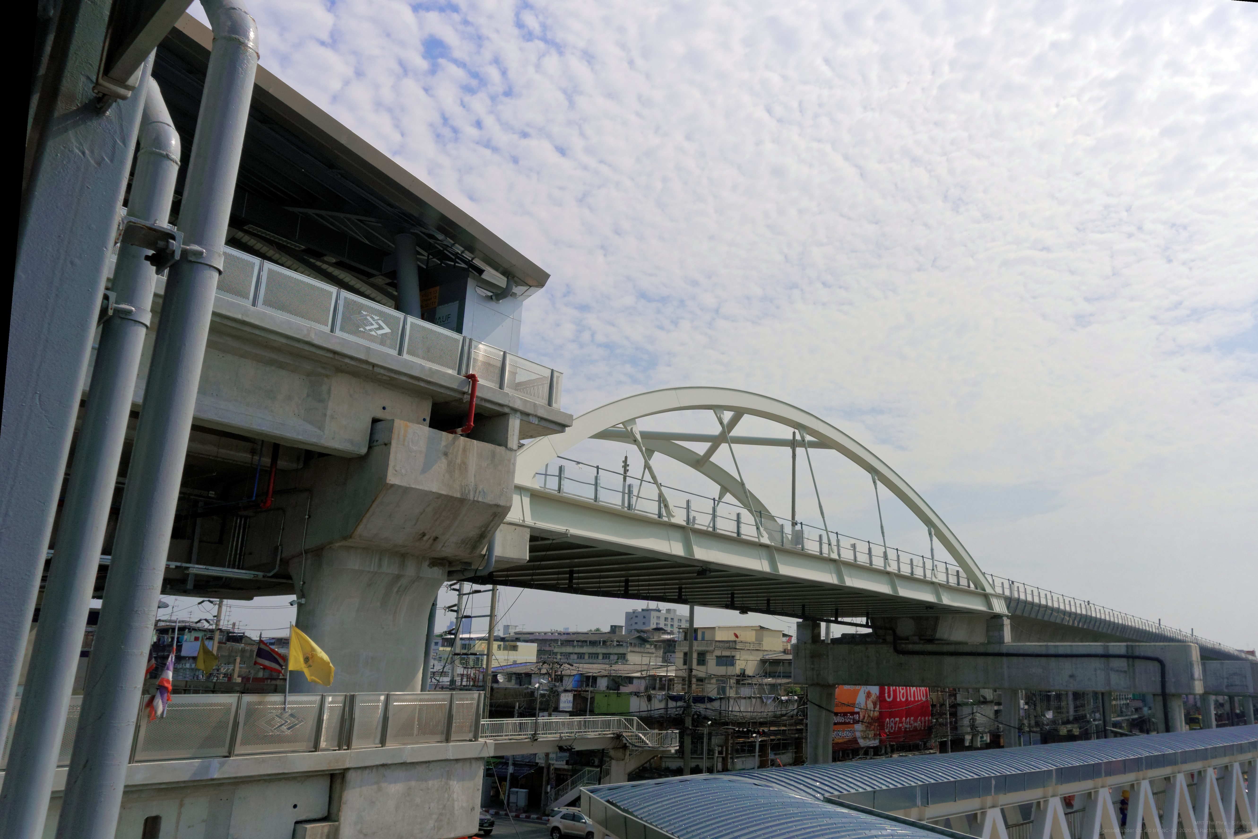 MRT Fai Chai – Bowstring bridge